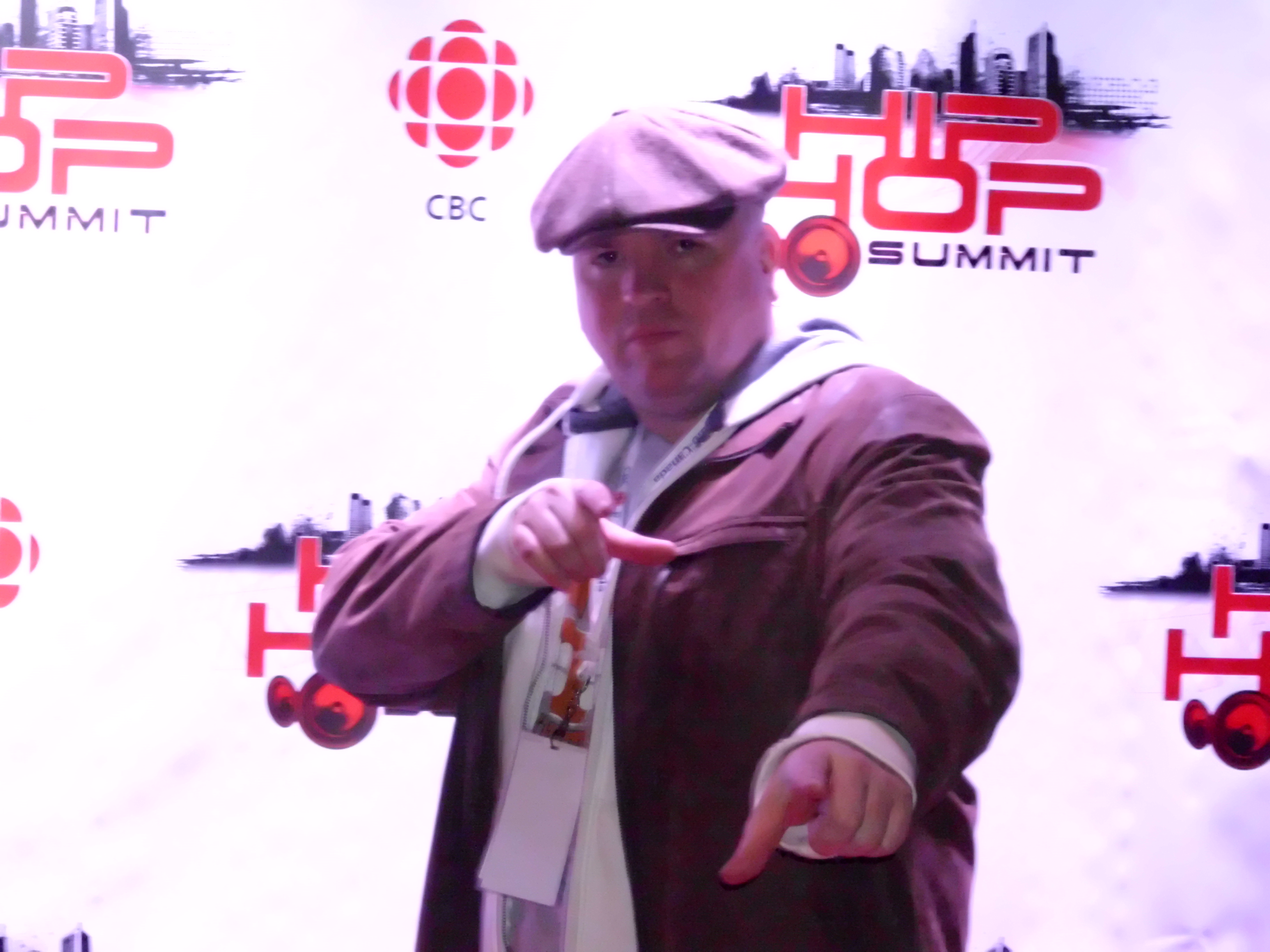 MC Shadow (kory neely) CBC Hip Hop Summit Red Carpet